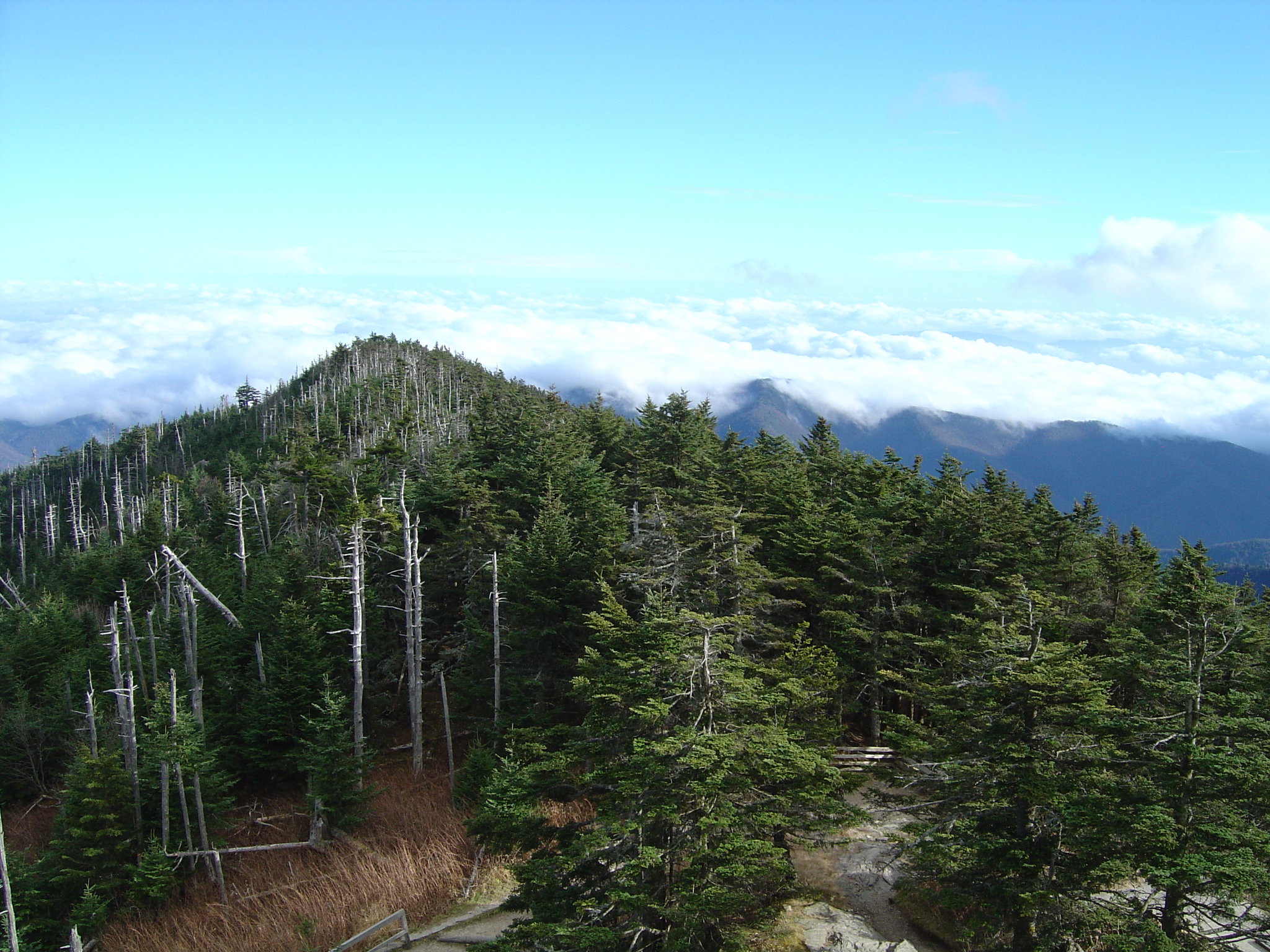 Abies fraseri forest, Mount Mitchell summit, — western North Carolina. 35°45′52″N 82°15′54″W, at 2,030 metres (6,660 ft) altitude. Southern Appalachian spruce-fir forest ecoregion.